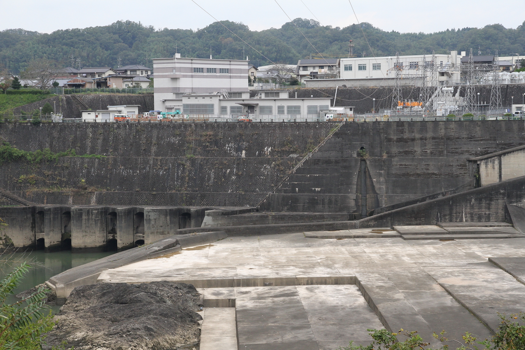 Kaneyama Power Station, Gifu prefecture, Japan.